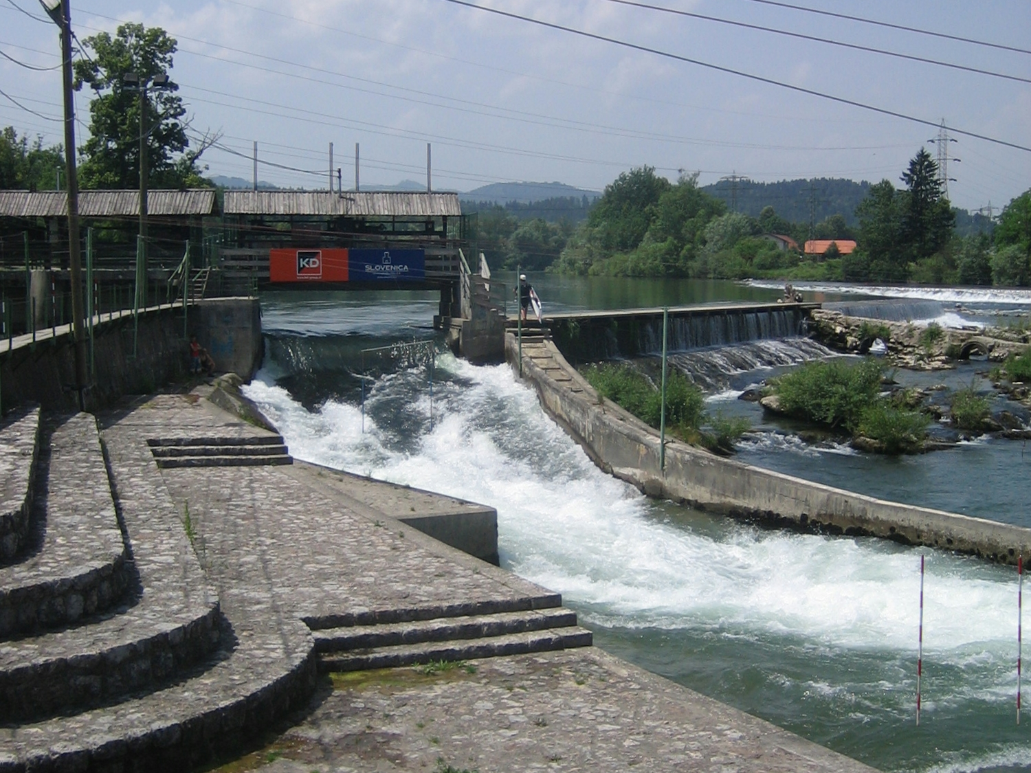 Top drop of the Tacen whitewater slalom course on the Sava river near Ljubljana, Slovenia.